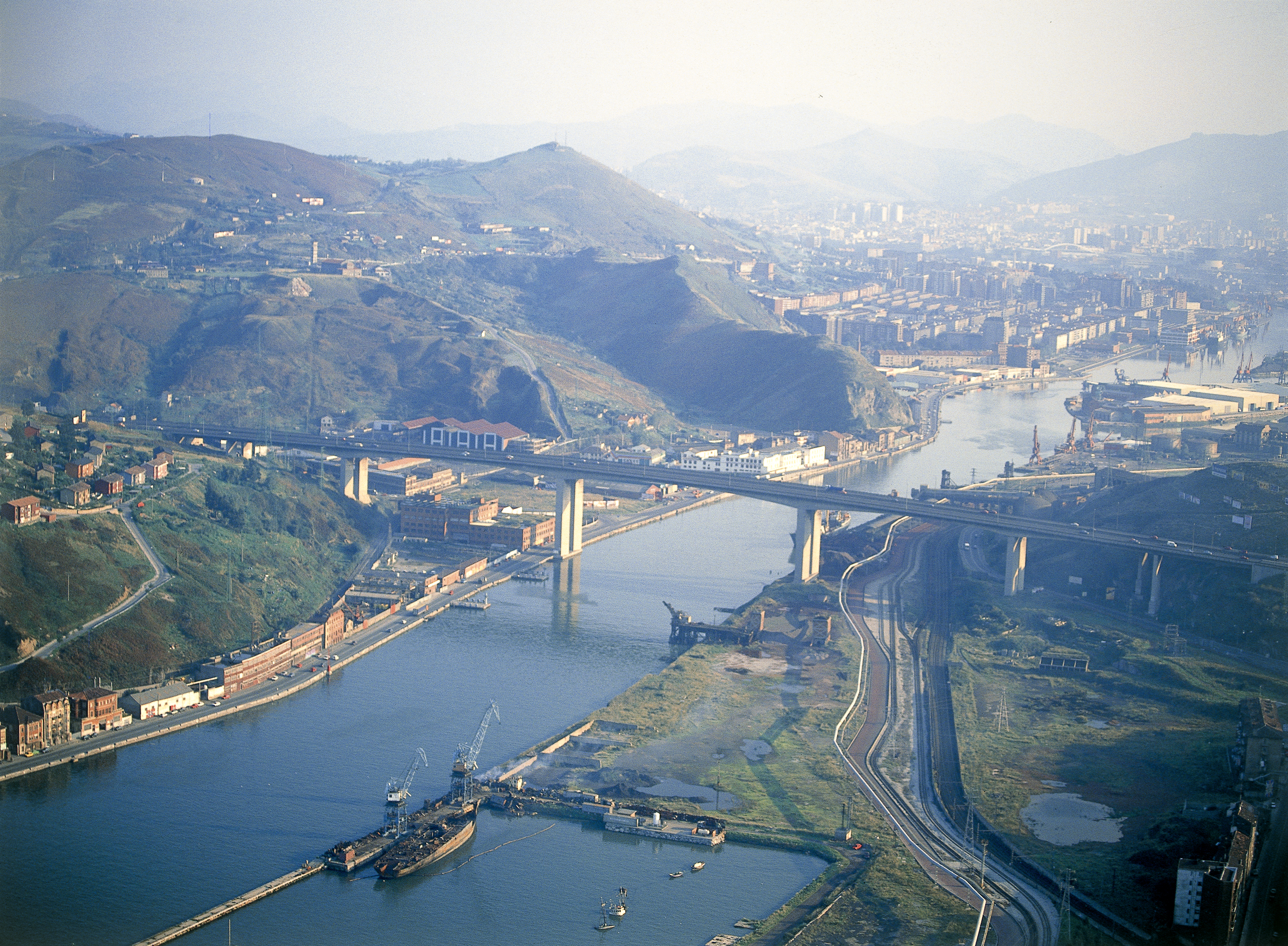 Rontegi bridge, Barakaldo. Bizkaia, Basque Country.